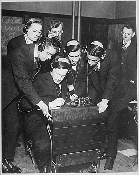 Government preparing men for radio work under direction of Federal Vocational Board. Student transmitting a message to four of his classmates in the class room at the Stuyvesant Evening High School, New York. Western Newspaper Union.